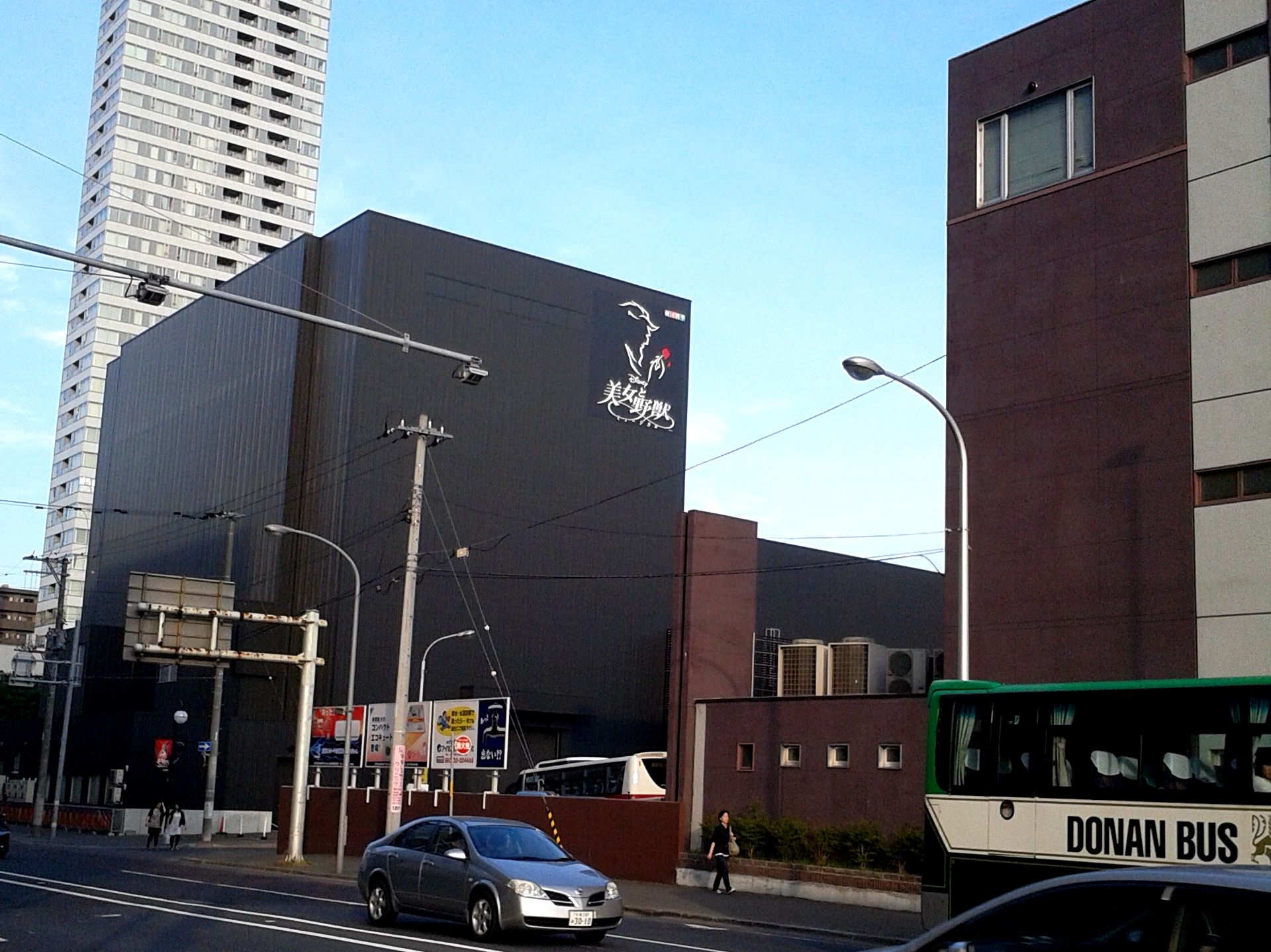 The Hokkaido Shiki Theatre in Sapporo, Hokkaido. (performing Beauty and the Beast)